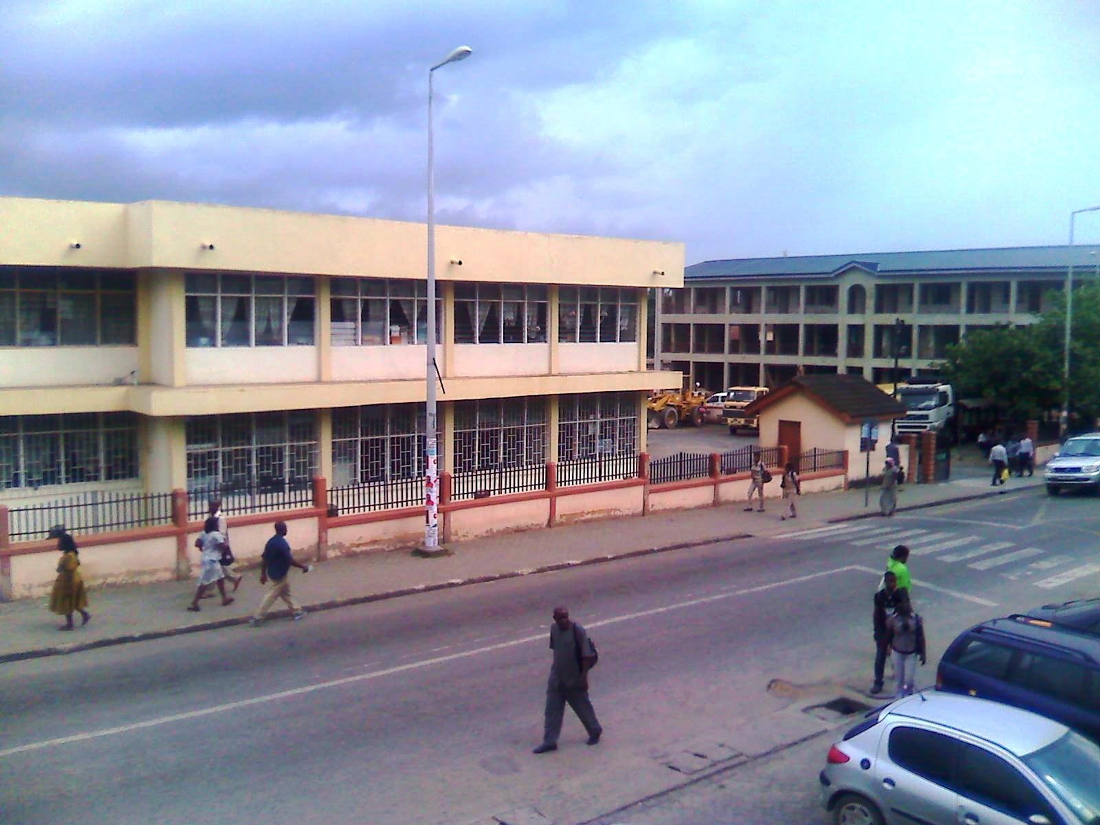 New Juaben Municipal Assembly Koforidua